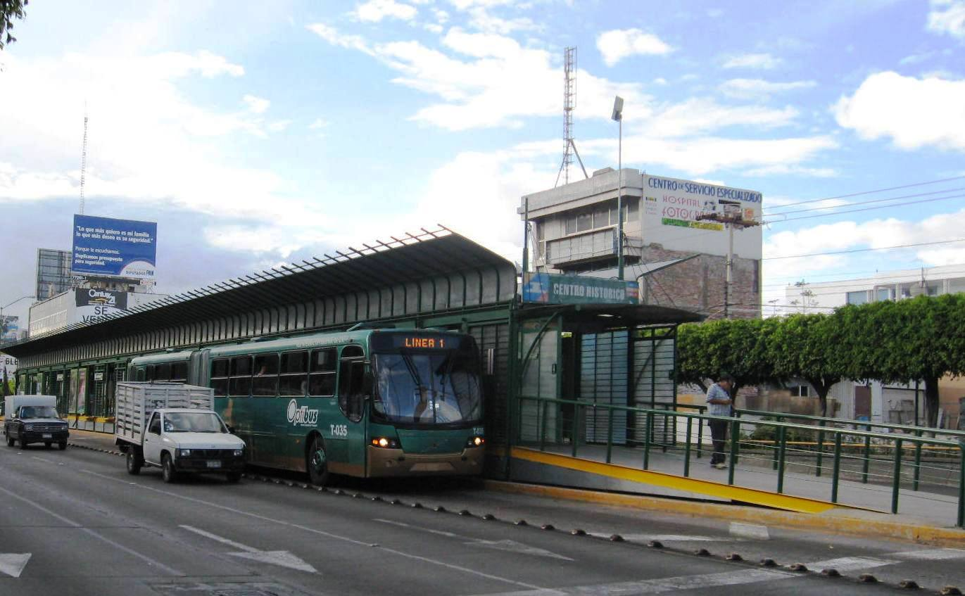 An Optibus at the Centro Historico station in Leon Guanajuato